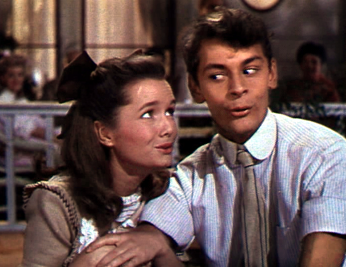 Screenshot from the trailer of the film Two Weeks With Love (1950), showing Debbie Reynolds and Carleton Carpenter singing "Aba Daba Honeymoon".